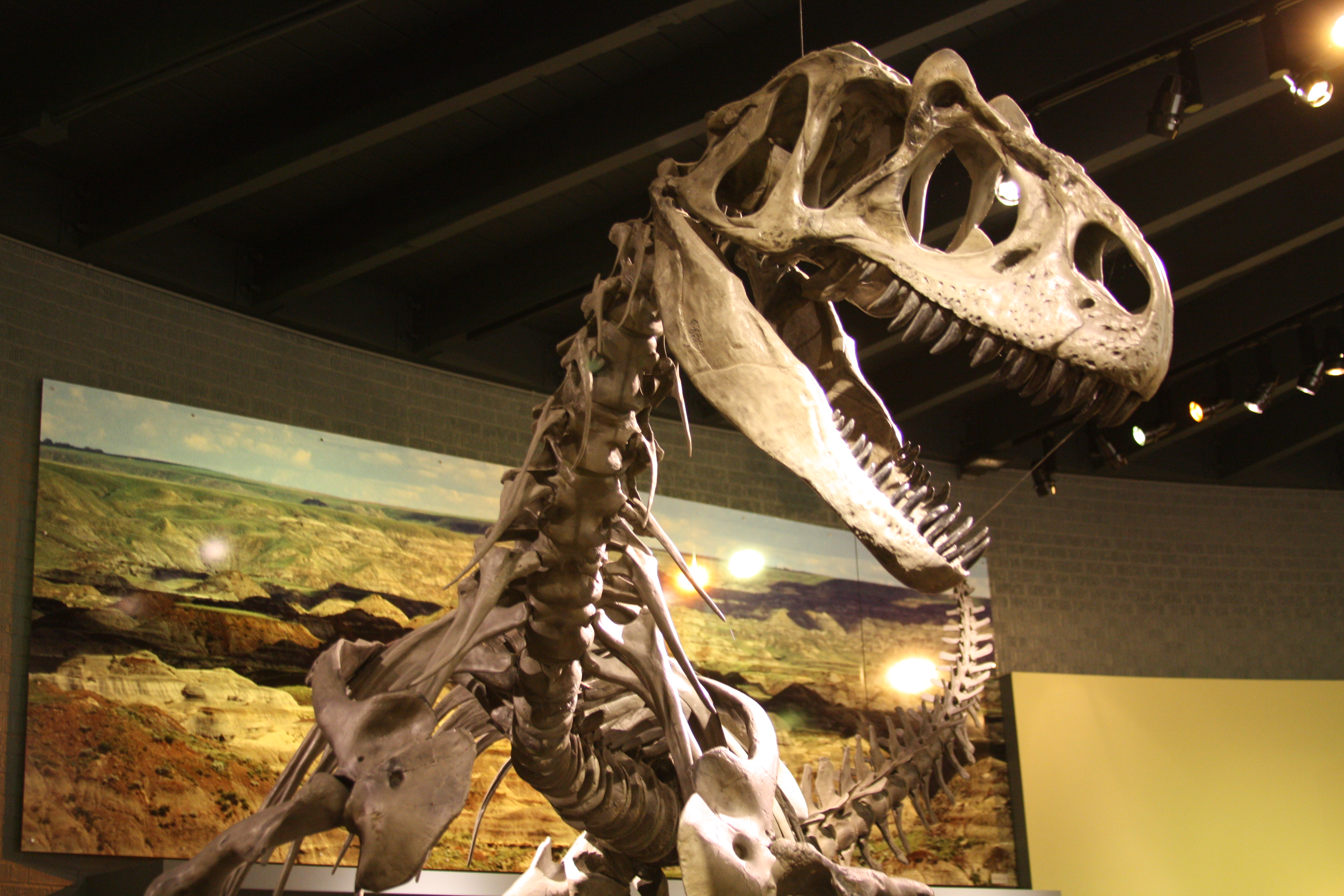 This photo shows the Allosaurus Skeleton at the Raymond M. Alf Museum of Paleontology, Claremont, CA.